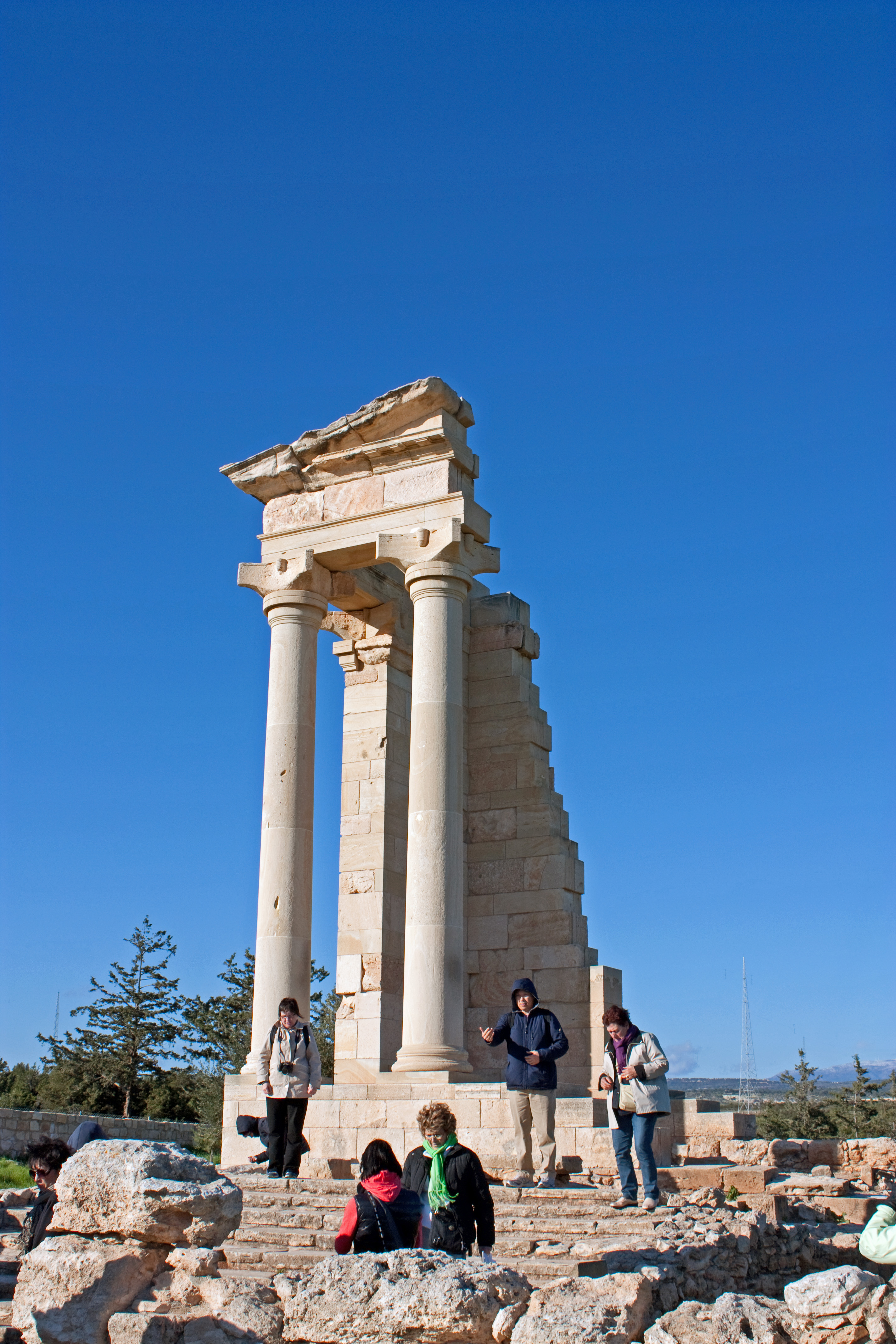 Temple at the Sanctuary of Apollo Hylates in Kourion, Cyprus.